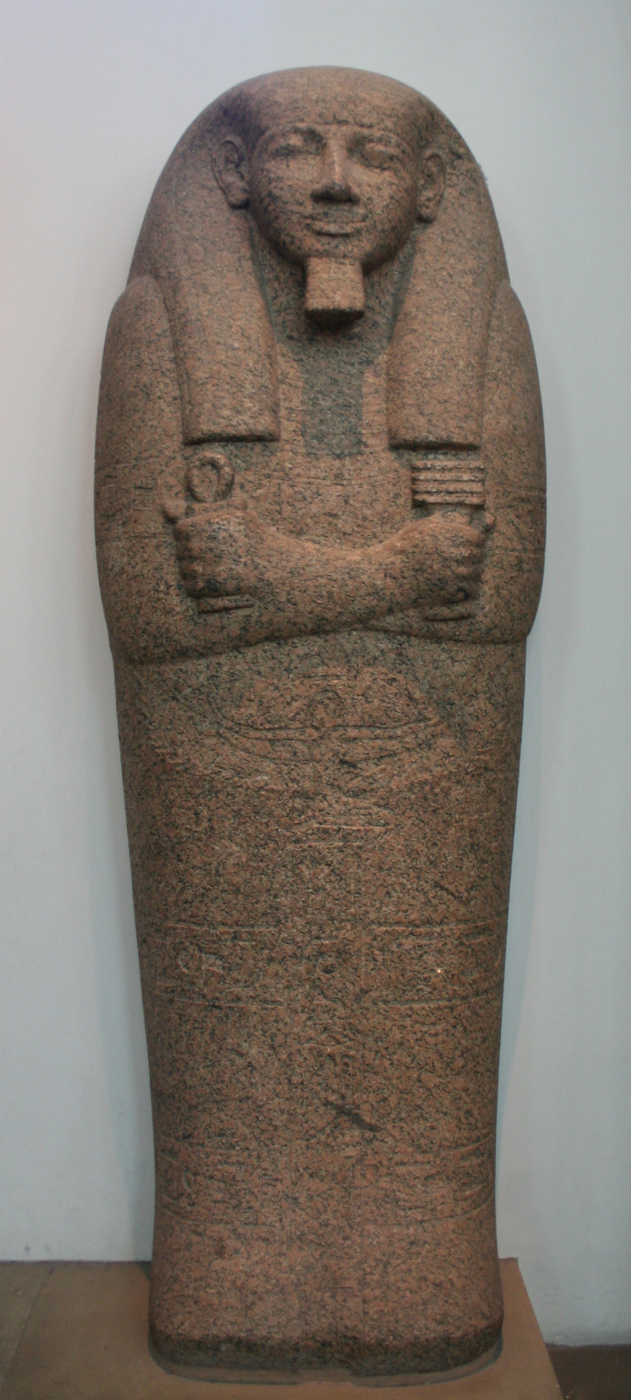 British Museum, London